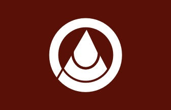 Flag of Shizukuishi Iwate